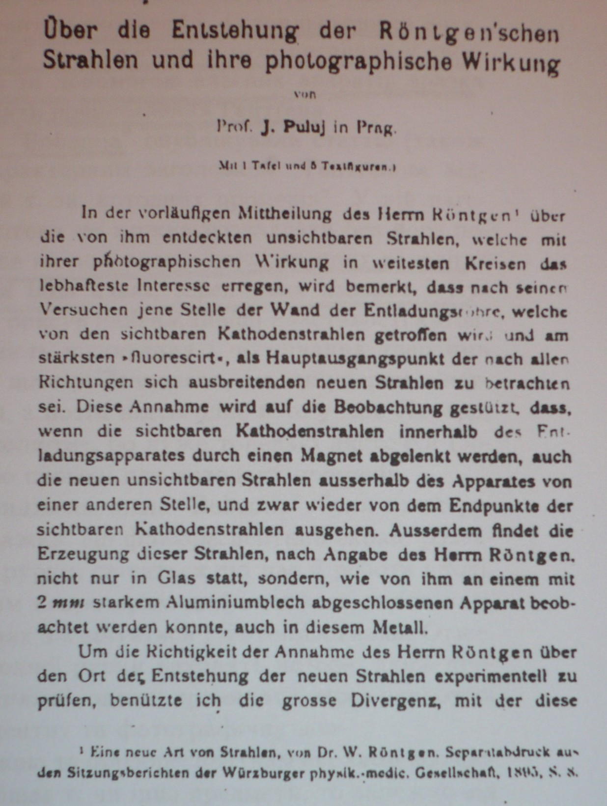 Title page of the first Puluj's article on X-rays